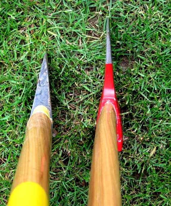 Comparison between splitting axe (left, large wedge angle of about 20deg) and cutting axe (right, small wedge angle lower than 10deg).